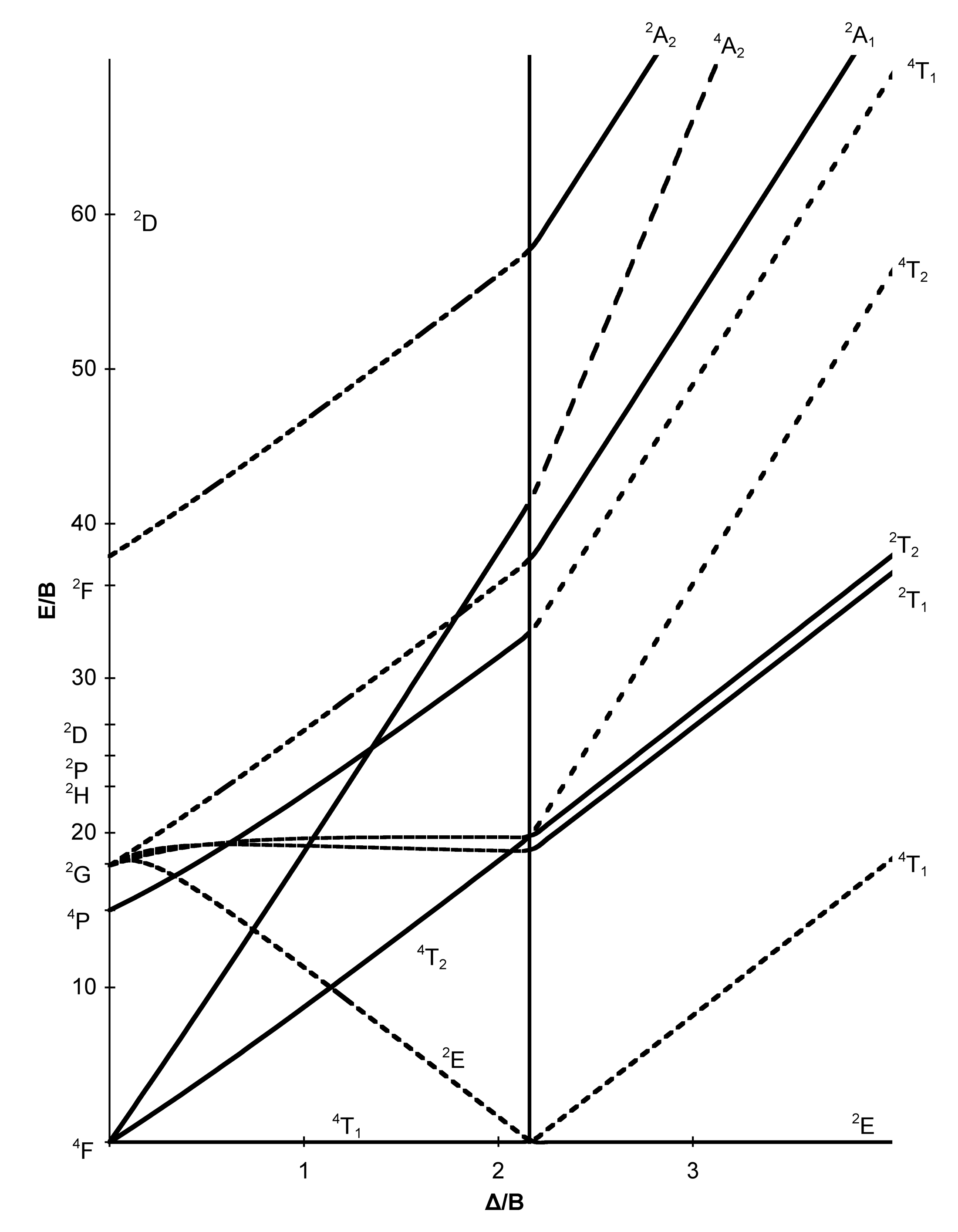 A Tanabe-Sugano diagram for the octahedral d7 electron configuration.